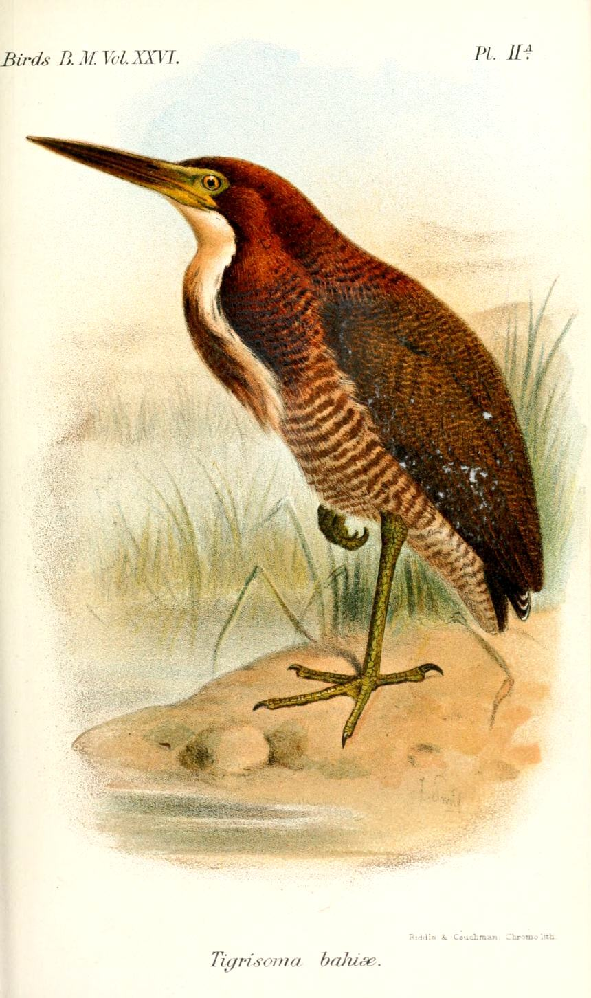 Tigrisoma bahiae = Tigrisoma lineatum, Rufescent Tiger Heron